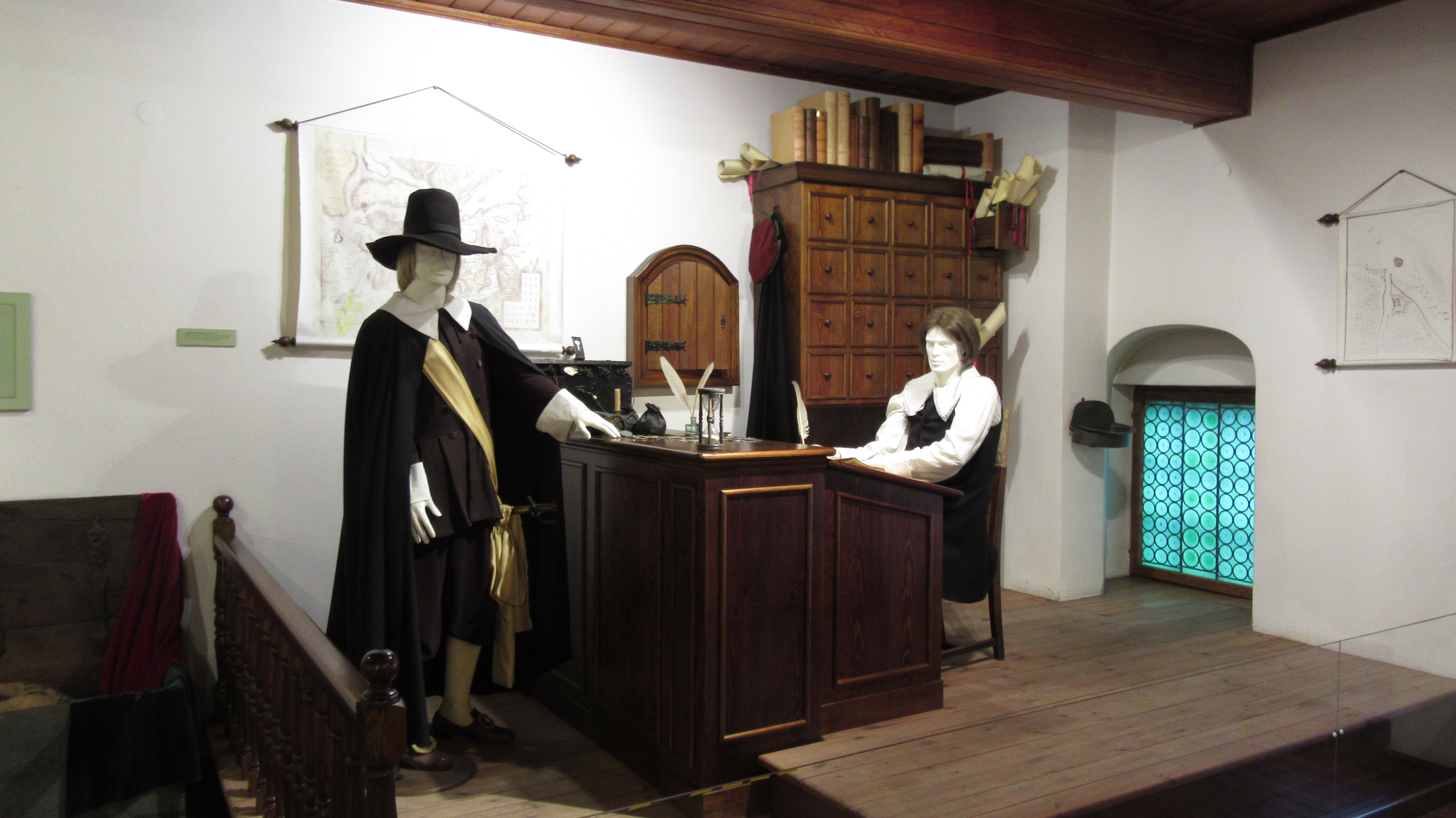 Diorama in National Maritime Museum in Gdańsk, showing office of wealthy merchant.